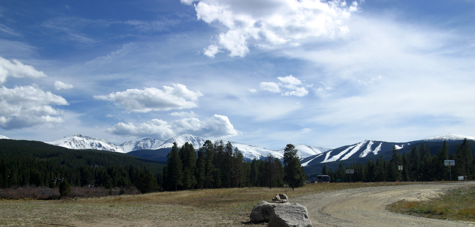 A view of the Continental Divide from northwest of Winter Park, Colorado along US-40.